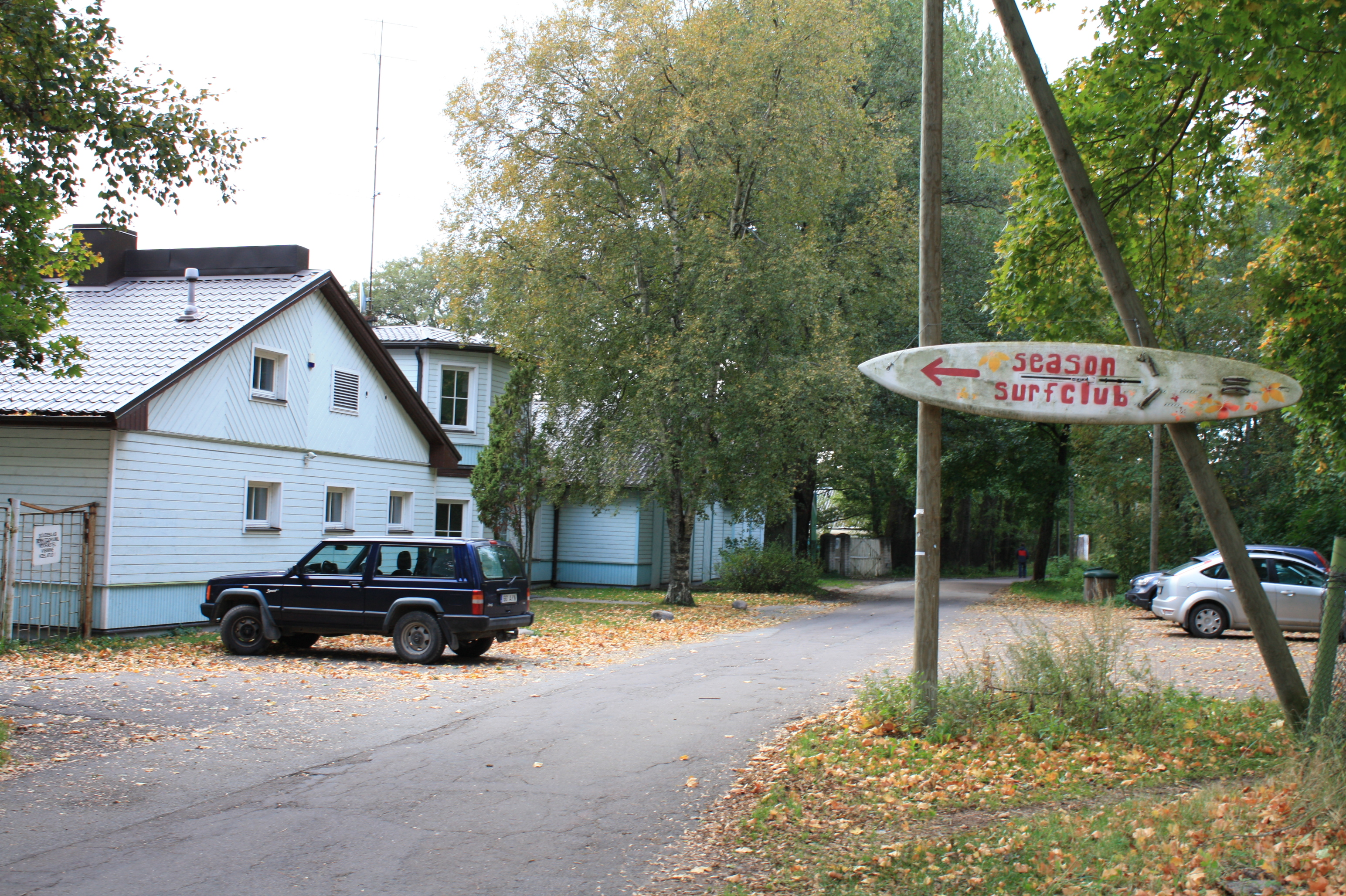 Surf club by the Lake Harku in Pikaliiva, Tallinn, Estonia.